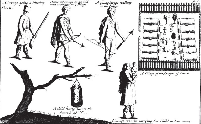 Lahontan village life depiction